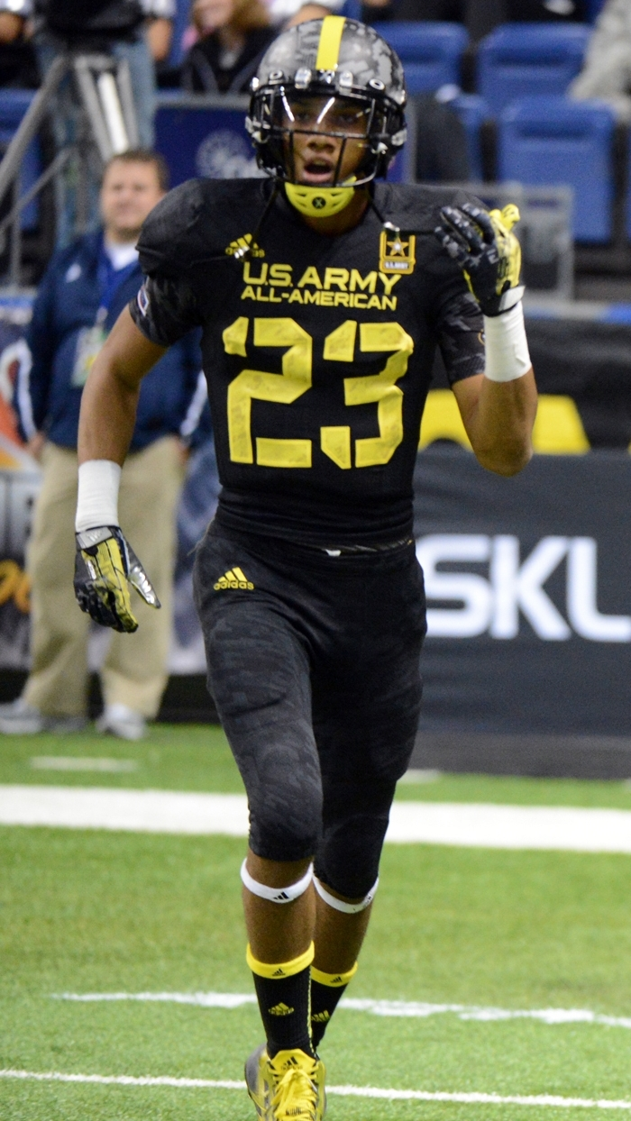 East wide receiver James Quick (No. 17) of Trinity High School in Louisville, Ky., celebrates catching the game-winning touchdown with teammates Tyler Boyd (23) of Clairton (Pa.) High School and Jeremy Johnson (11) of Montgomery (Ala.) Carver High School at the 2013 U.S. Army All-American Bowl on Jan 5 at the Alamodome in San Antonio. Quick's 34-yard touchdwon reception from Johnson gave the East a 13-8 lead with 3 minutes, 59 seconds remaining in the game. Quick, who had three receptions for 71 yards, also received the Pete Dawkins Game MVP award. U.S. Army photo by Tim Hipps, IMCOM Public Affairs